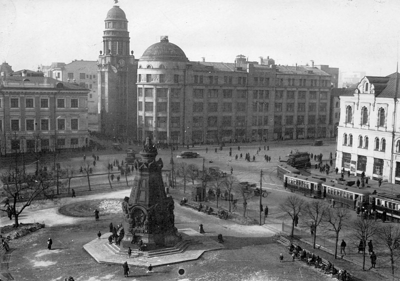 Ilyinsky gates square in 1936